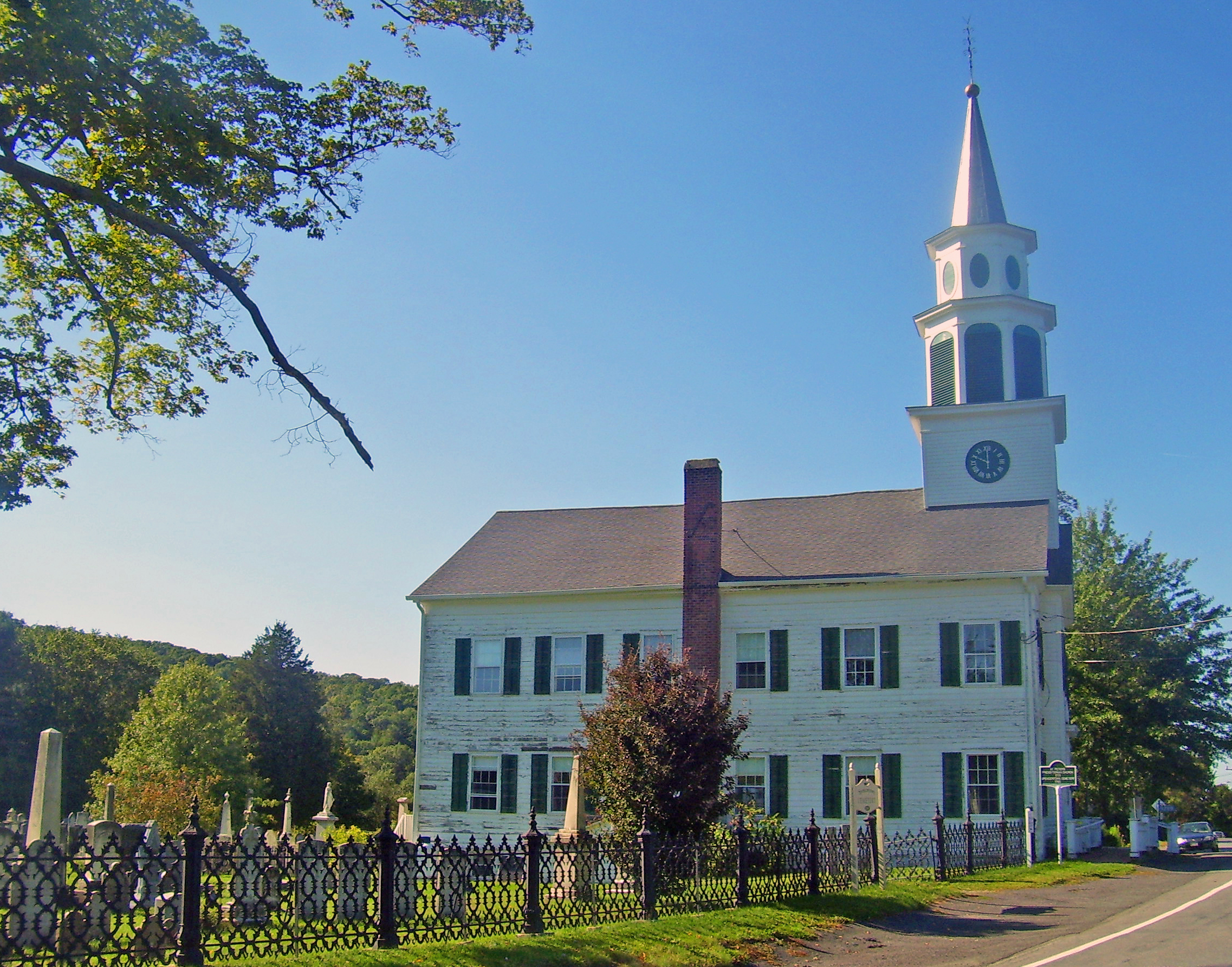 St. Peter's Presbyterian Church and cemetery, Spencertown, NY, USA